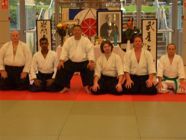 Hitohiro Saito Sensei with some Students at Bath Aikido Seminar, UK, November 2008.